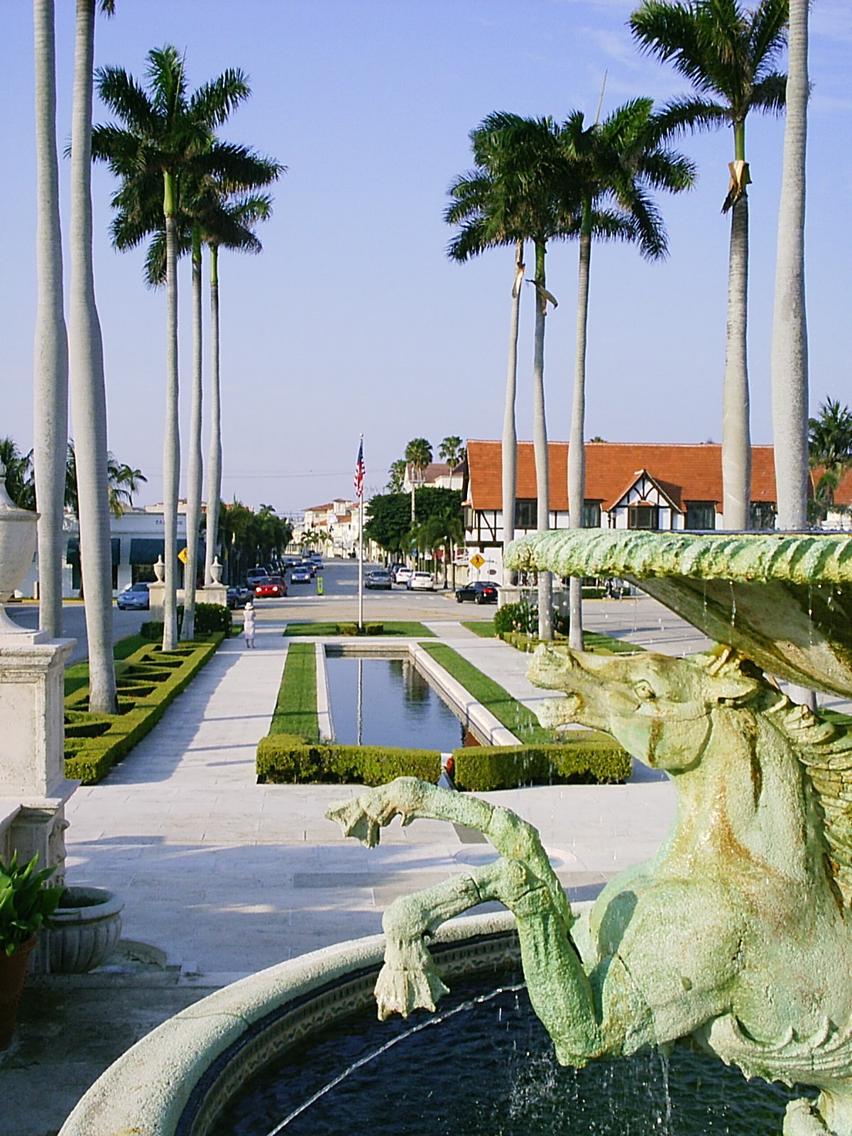 View from the Memorial Fountain toward the reflecting pool (the park was designed by by Addison Mizner) located in the center of the Town of Palm Beach, near the Town Hall.